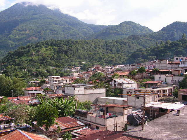 San Pedro la Laguna and Volcan San Pedro, Guatemala.